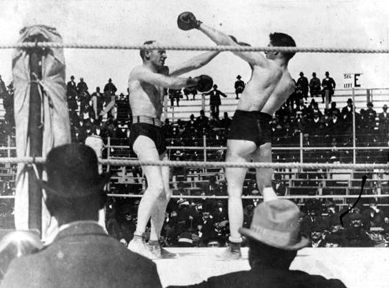 Original text: While I found the photograph on a website, the photo was clearly taken the day of the fight, March 17, 1897. Add to that that this was the second of two times that Corbett and Fitzsimmons sparred each other. I do not know the identity of the photographer, but I don't know if that is unknown.